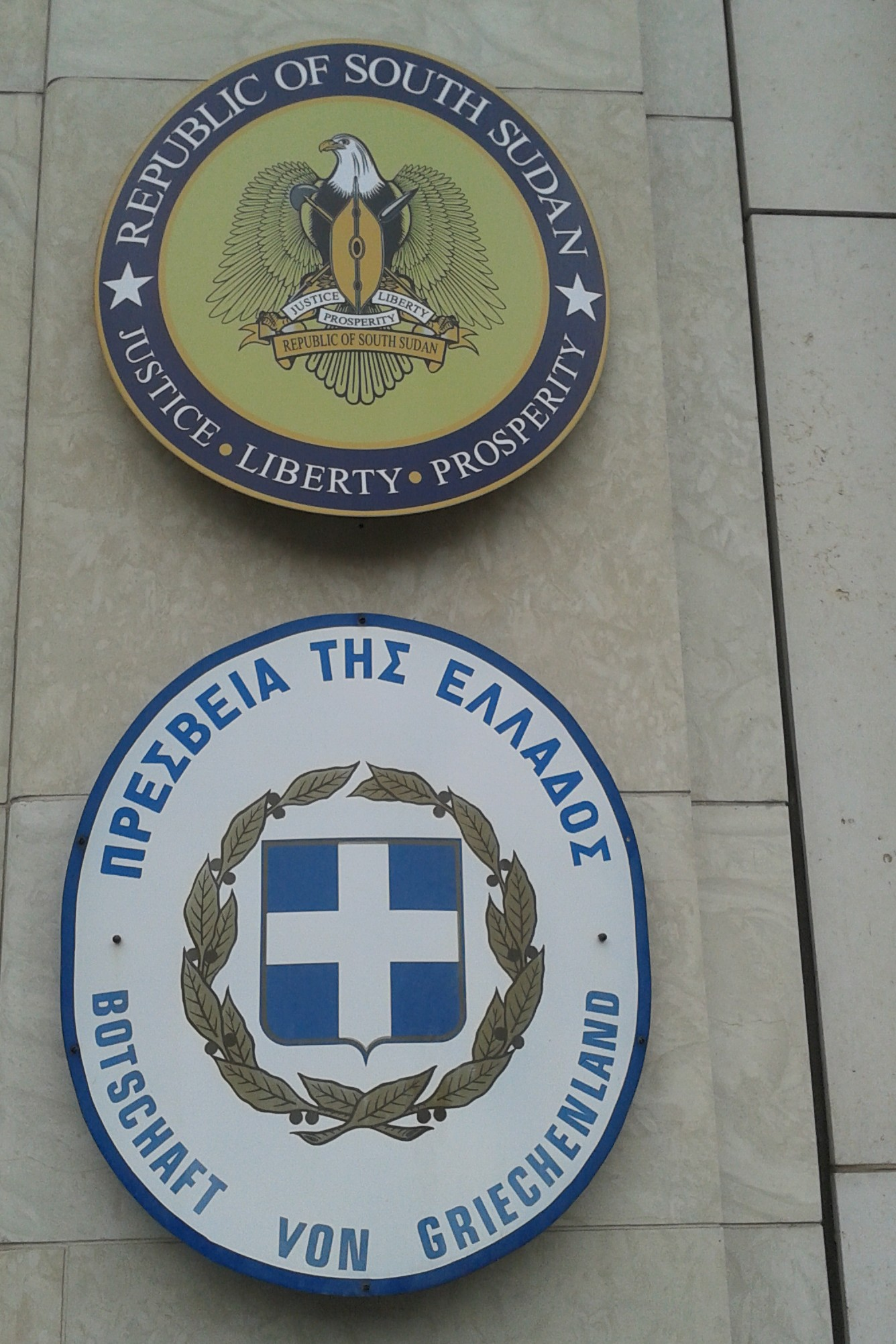 Plaques of the embassies of Greece and South Sudan in Berlin, Leipziger Platz